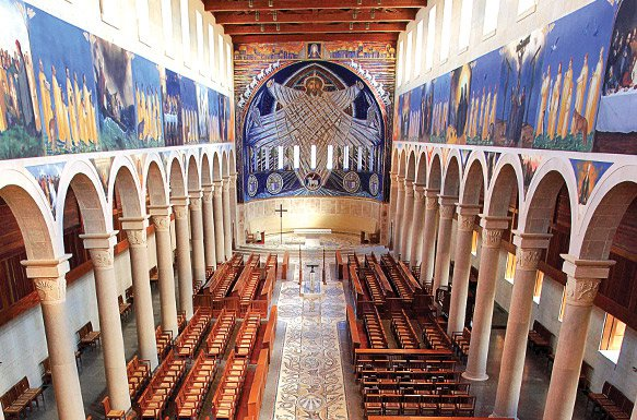 An interior view of the Church of the Transfiguration including the fresco panels, mosaic apse and pathway, carved stone capitals, and liturgical furniture